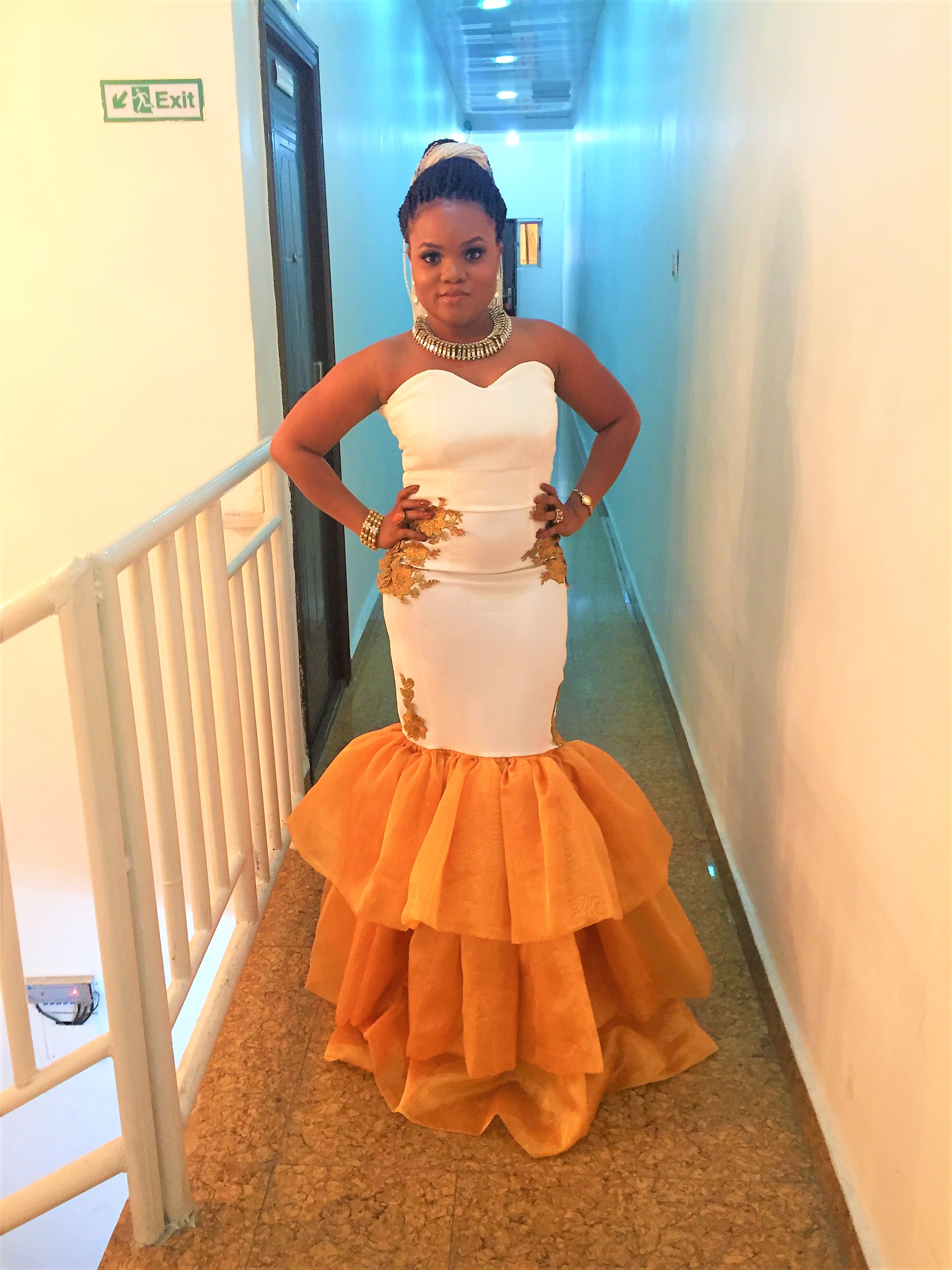 Pre-Mc photo op for Praise Jam, 2015